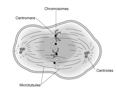 Metaphase